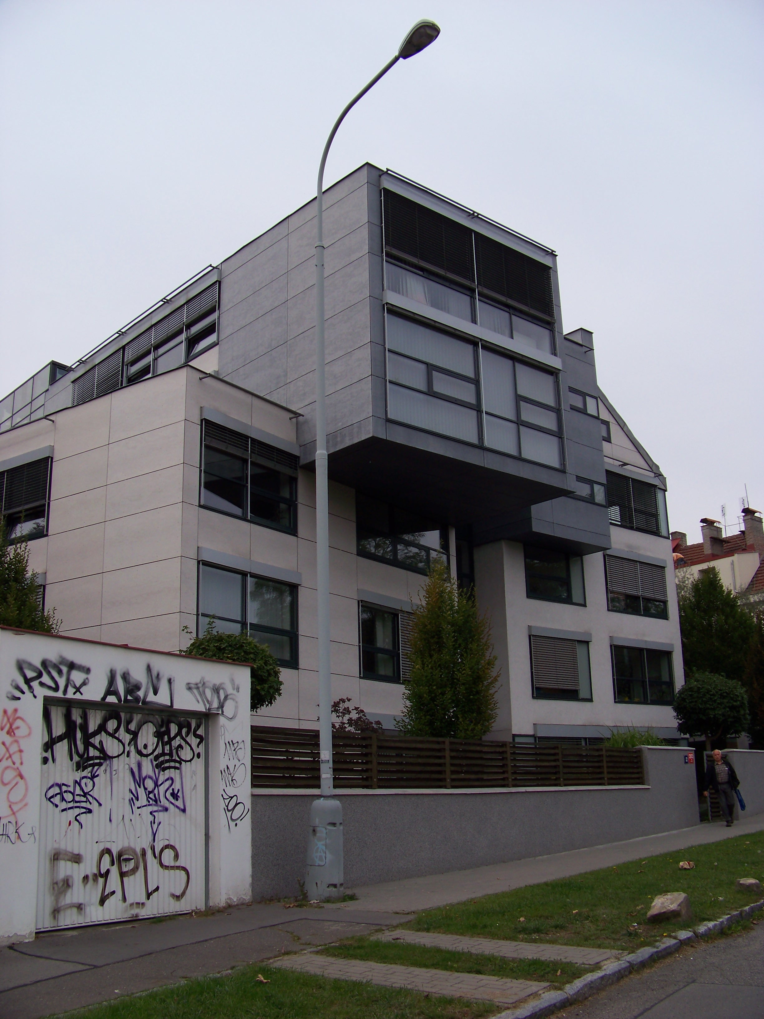 Prague-Krč, the Czech Republic. Čerčanská 2023/12, ŘSD. - OpenStreetMap(Info)